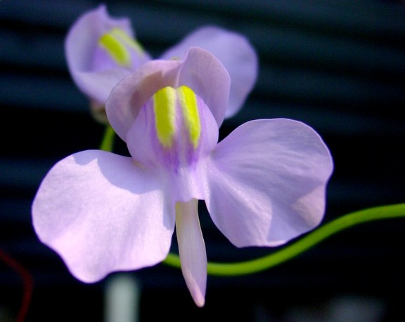 Utricularia nelumbifolia flower. Plant grown by Forbes Conrad.